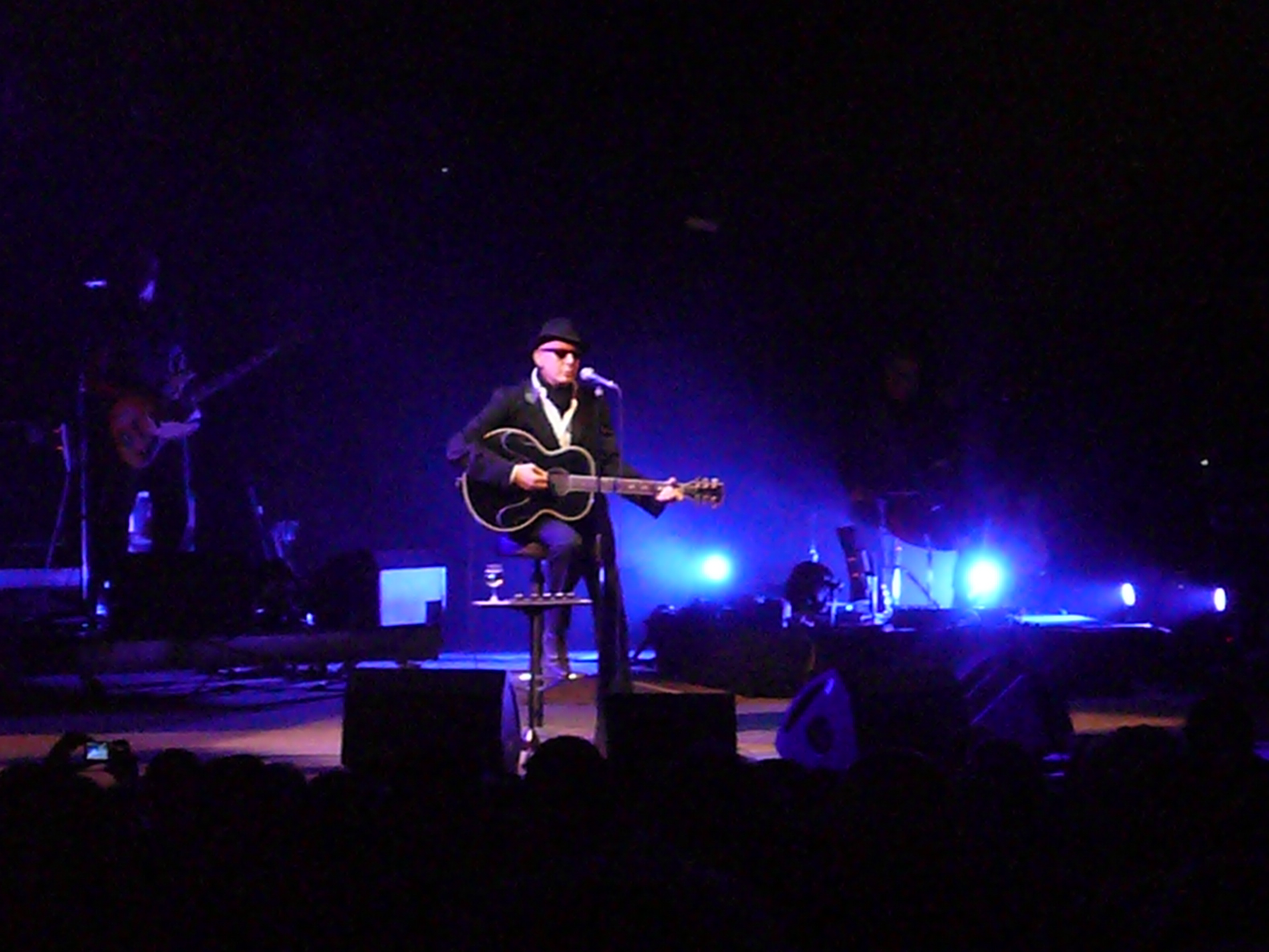 Alain Bashung, during the '08 Paléo Festival